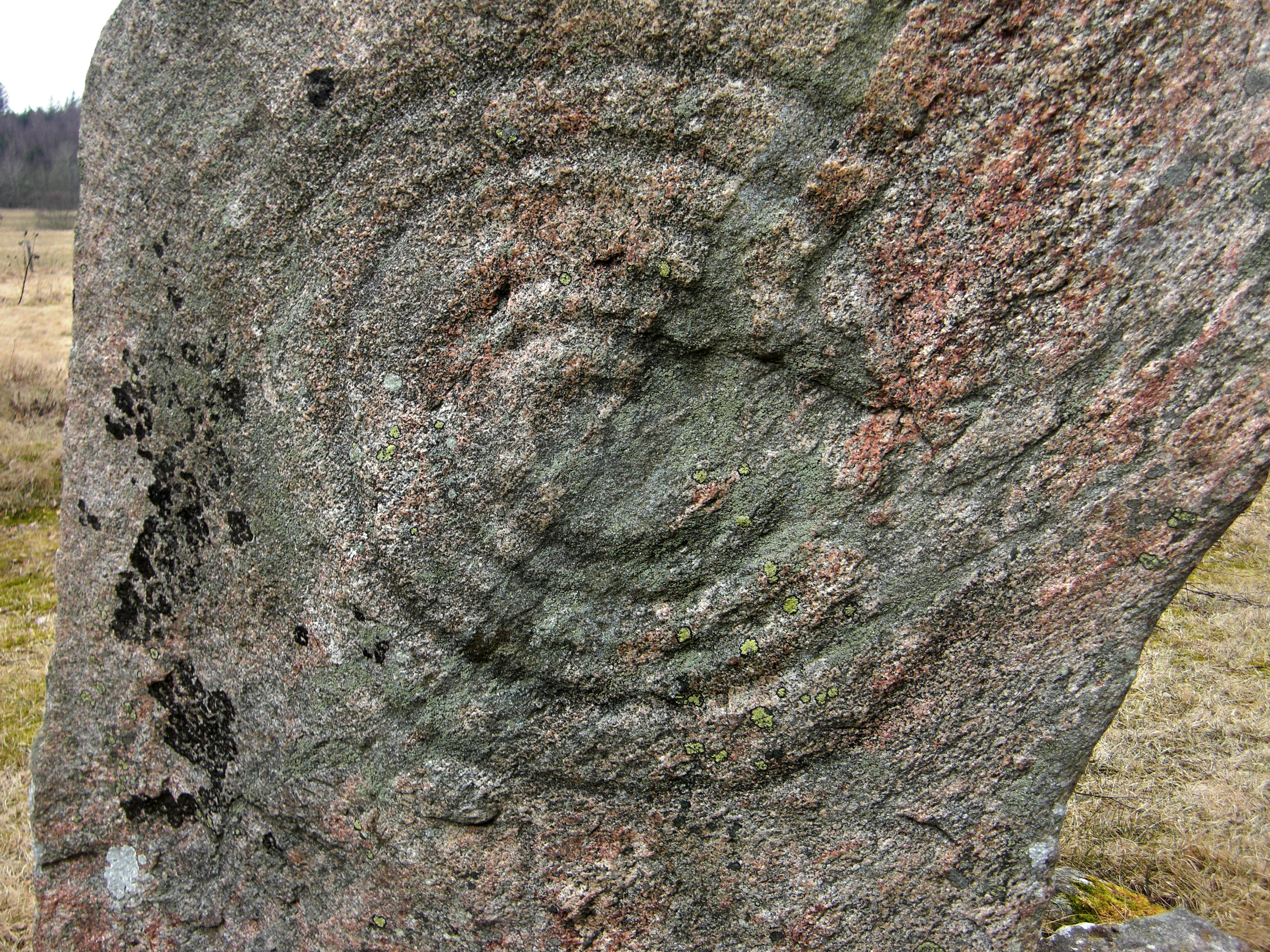 Petroglyph of concentric circles (RAÄ No Asige 17:6) at an erected stone (RAÄ No Asige 17:5) in the ancient monument Hagbards galge (i.e. "Hagbard's gallow") (RAÄ No Asige 17:1-7) in Asige parish, Årstad hundred, Falkenberg municipality, Halland county, Halland, Sweden.